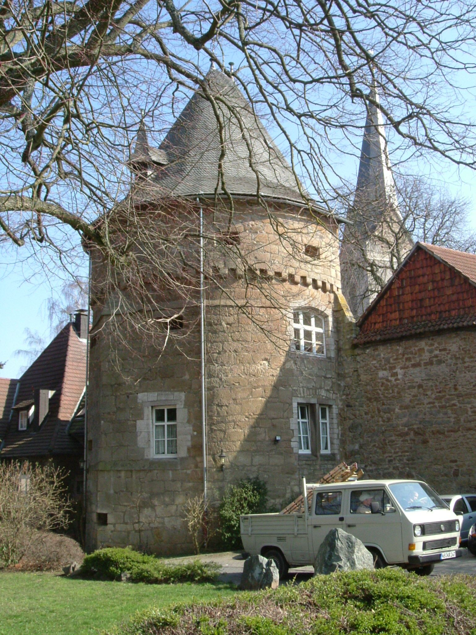 Korbach, Germany. Wool Weavers' Tower. Author: Peter Kaboldy, 03. 2007.